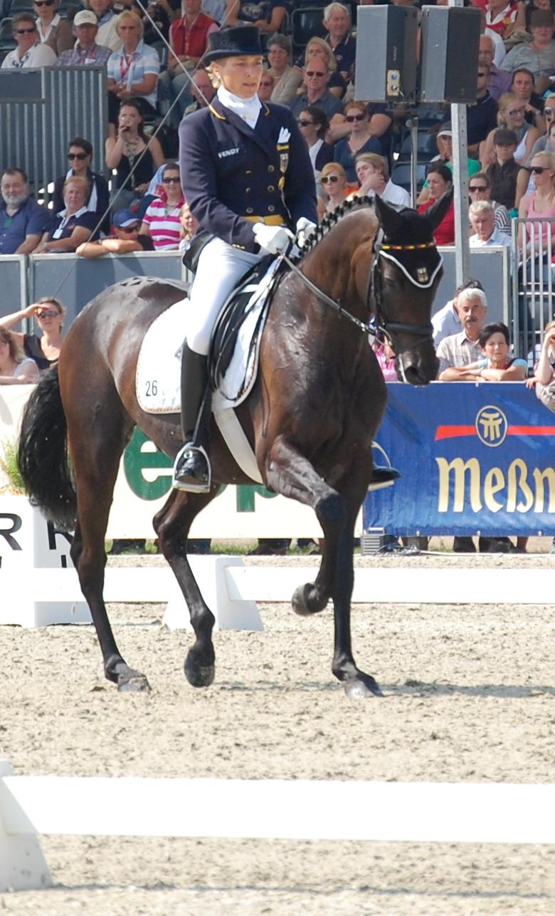 Ingrid Klimke and Butts Abraxxas at the 2011 European Eventing Championship, Luhmühlen (dressage competition)